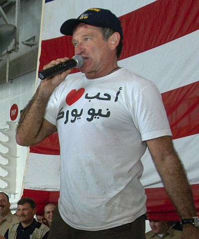 Actor/comedian Robin Williams entertains the crew of USS Enterprise (CVN 65) during a holiday special hosted by the United Service Organization (USO). The show took place in the ship's hangar bay and featured the visiting Chairman of the Joint Chiefs of Staff, General Richard Myers, NASCAR driver Mike Wallace, and World Wrestling Entertainment (WWE) celebrity Kurt Angle. The shirt worn in the picture is the popular "I Love (Heart) New York" translated into Arabic.